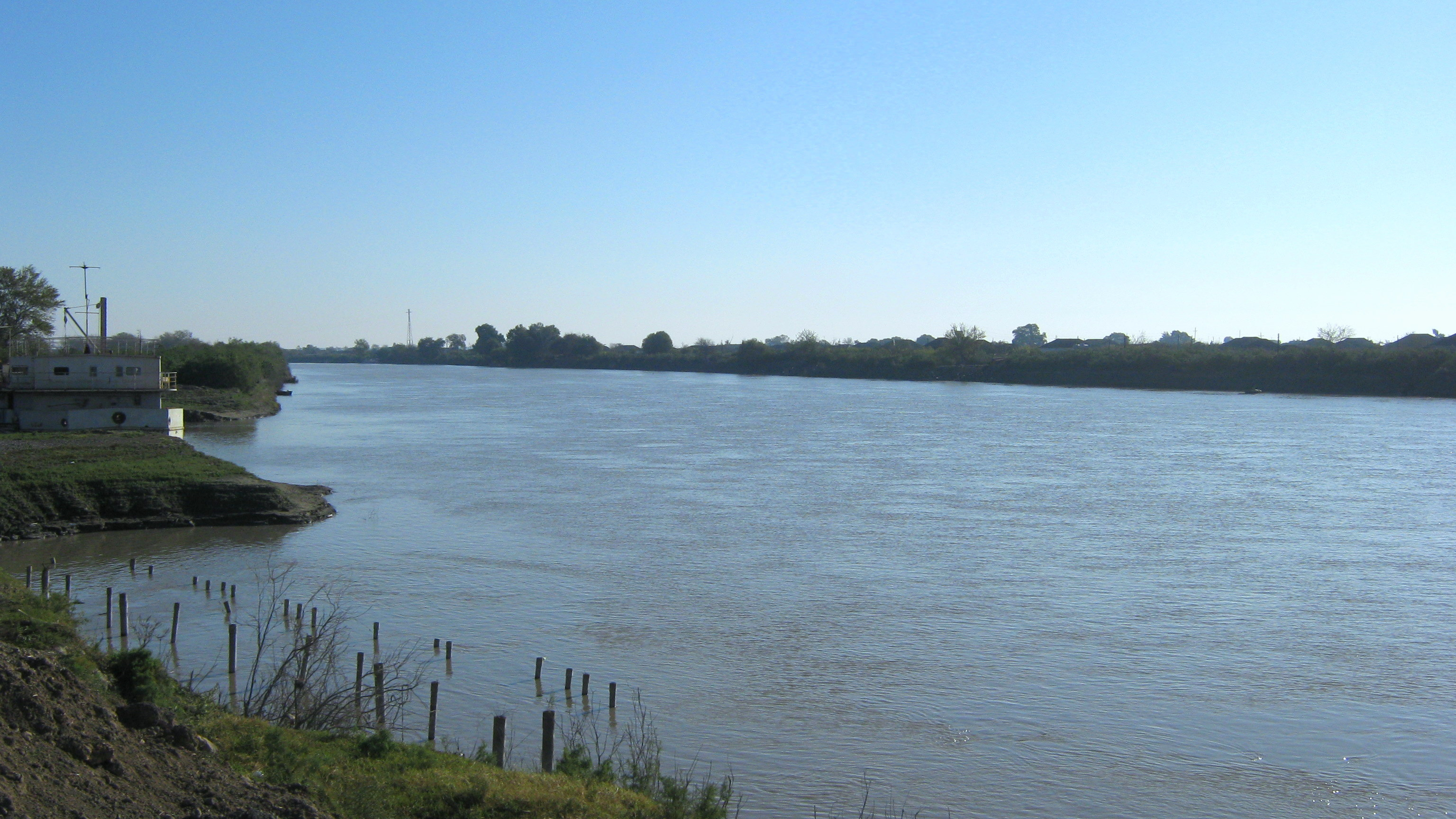 Salyan,Azerbaijan